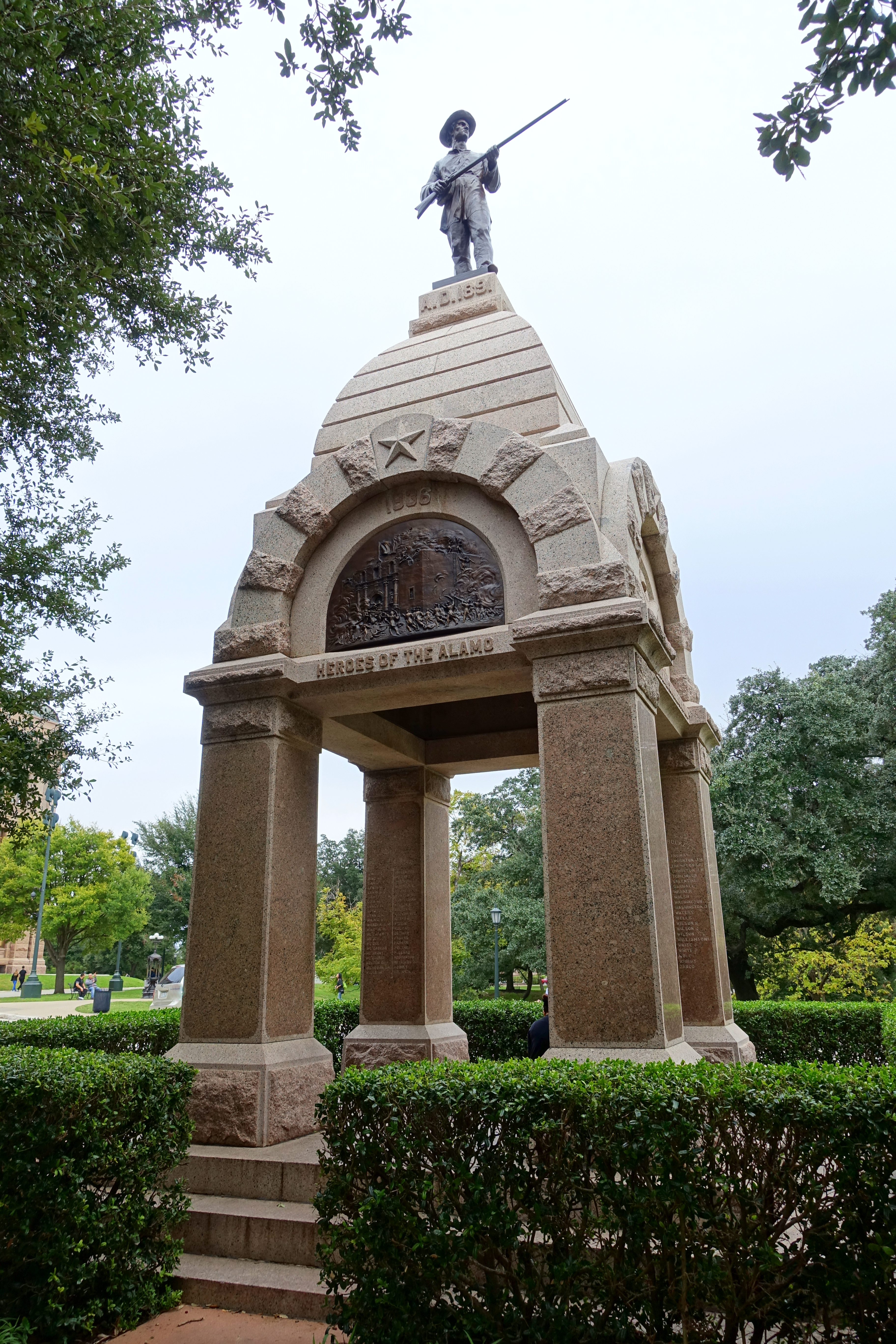 Heroes of the Alamo - Texas State Capitol grounds - Austin, Texas, USA. Designed by James S. Clark, sculpture by Carl Rohl-Smith, and erected on the Texas State Capitol grounds in 1891.